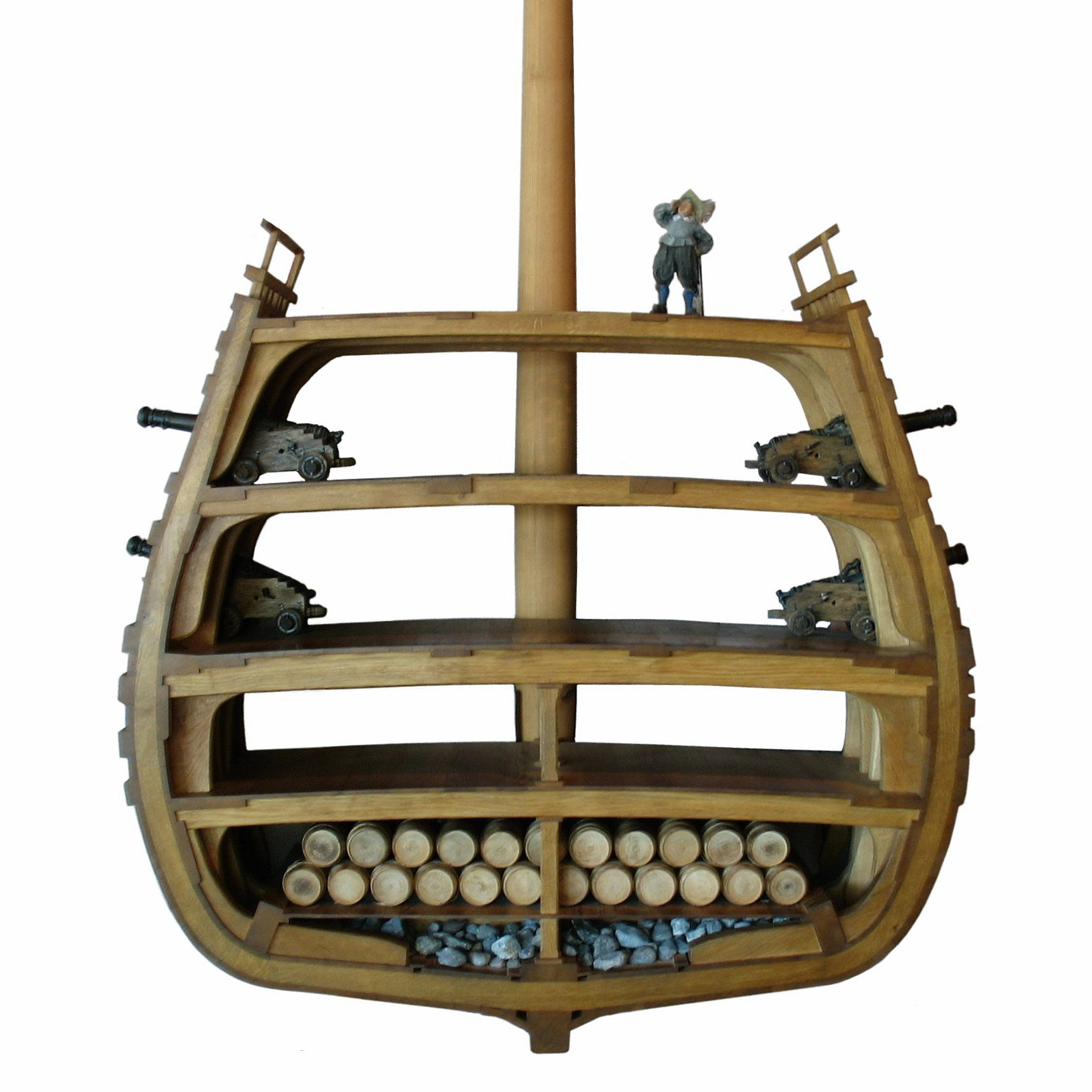 A model of Vasa's hull profile, taken at the Vasa Museum